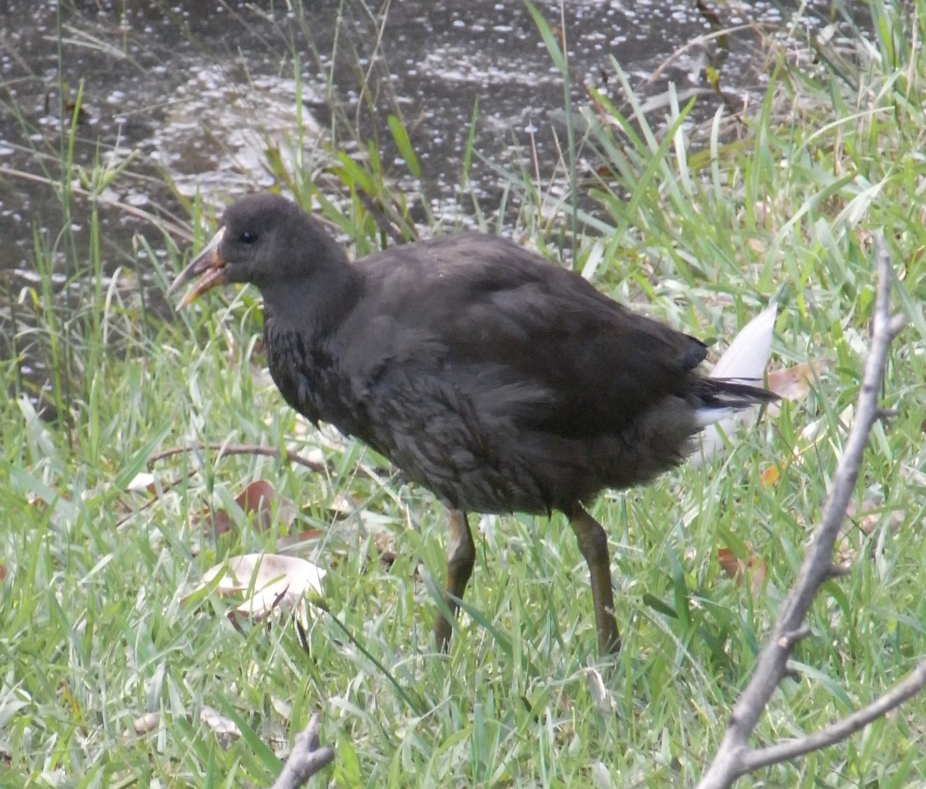 Young Purple Swamphen (Porphyrio porphyrio melanotus) near Audley, Royal National Park, New South Wales, Australia.